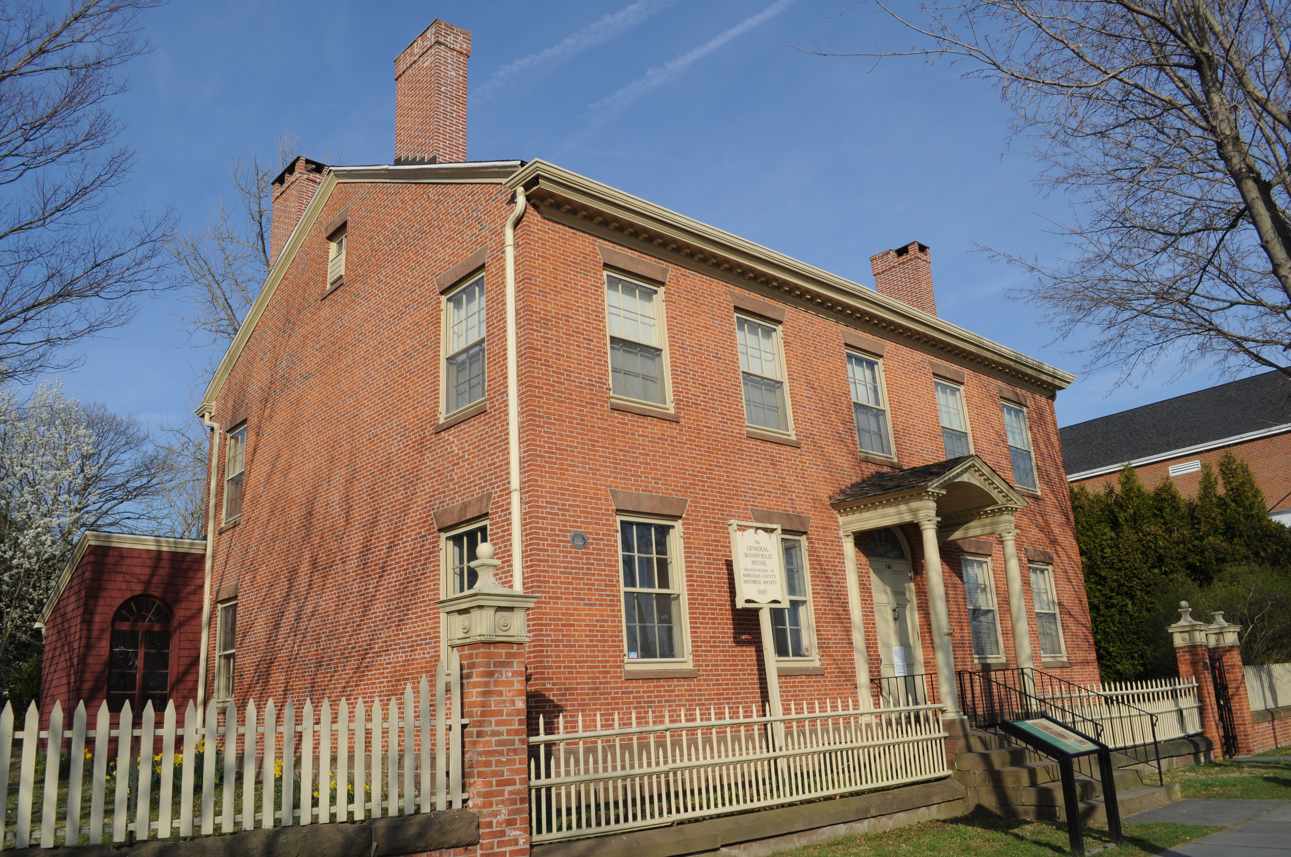 General Mansfield House, 151 Main Street, Middletown, Connecticut, USA, now Middlesex County Historical Society, built the father-in-law of General Joseph K. Mansfield in 1810. A contributing property of the Metro South Historic District, which is on the National Register of Historic Places.